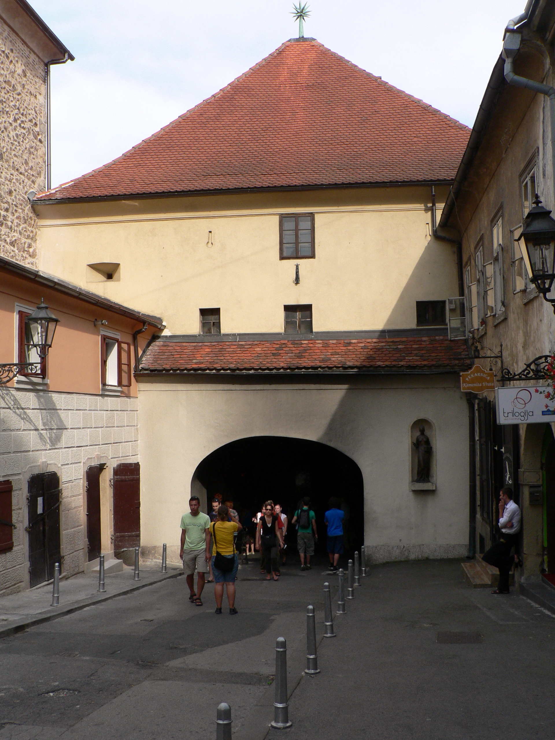 Kamenita Vrata (Stone Doors).